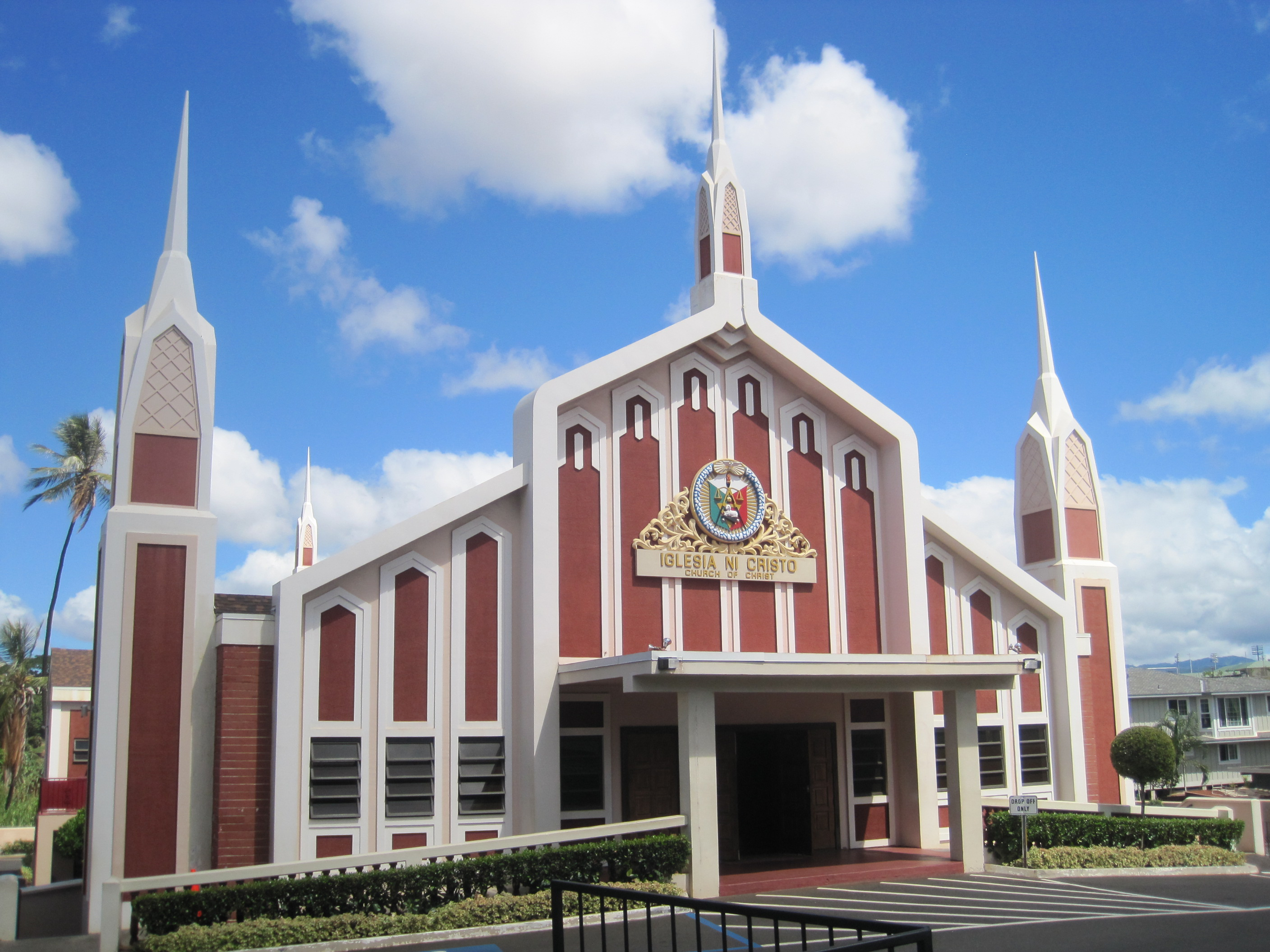 Iglesia ni Cristo, Farrington Hwy., Waipahu, HI, USA